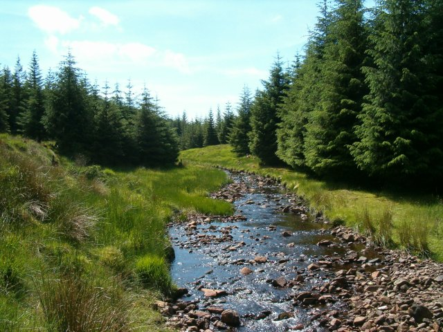 Deer and the Douglas Water. Deer can be seen along the other bank of the river, but they were making their excuses as I took the picture.